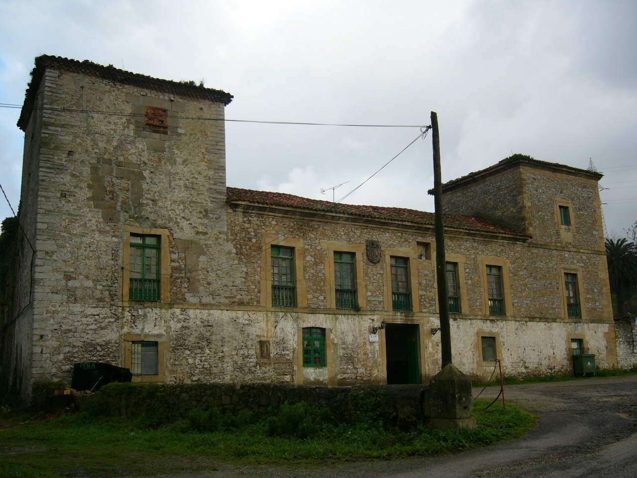 Palace of Rodríguez León's family (s.XV) in Trasona (Asturies - Spain)